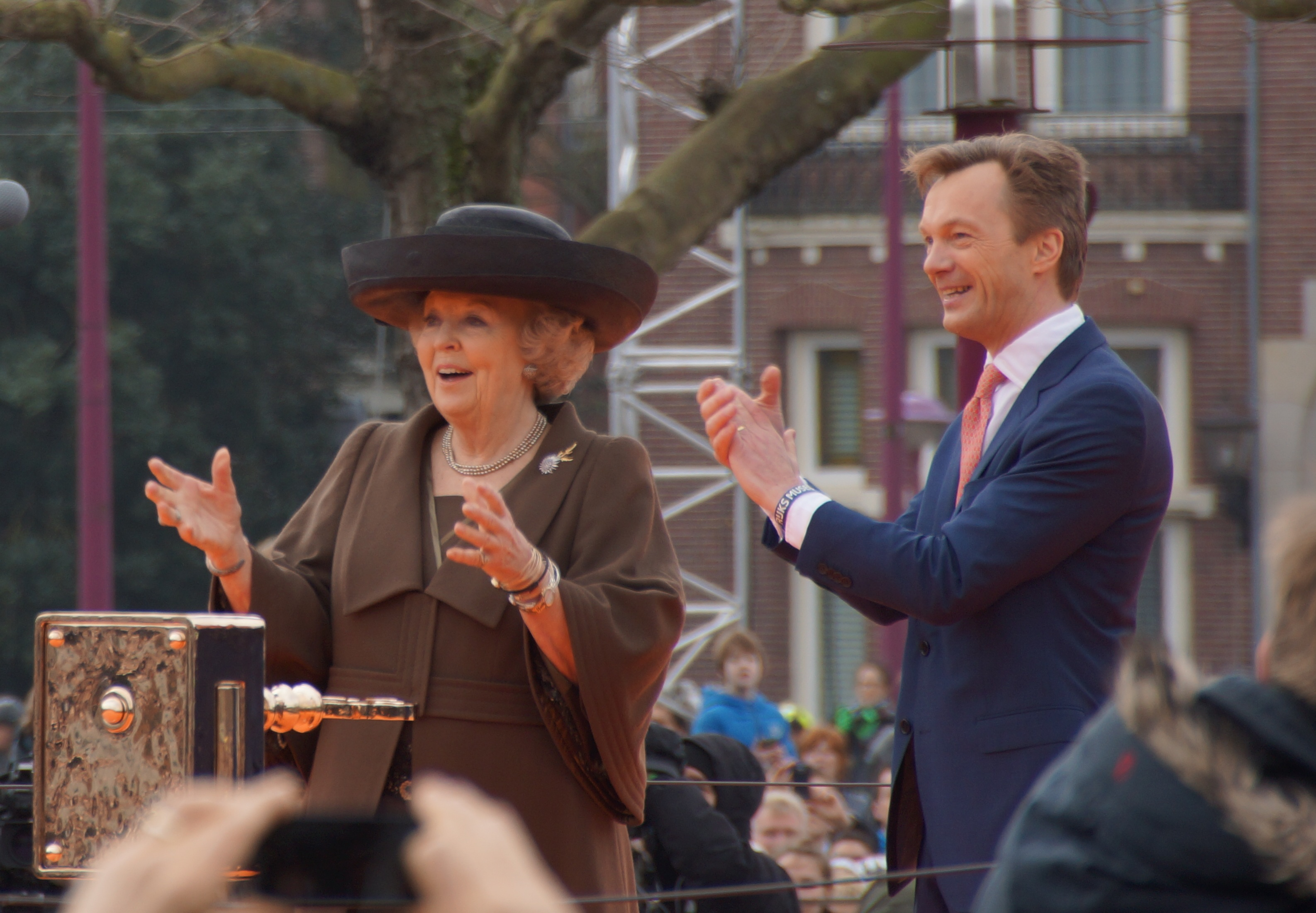 Queen Beatrix and Wim Pijbes during the reopening of the Rijksmuseum